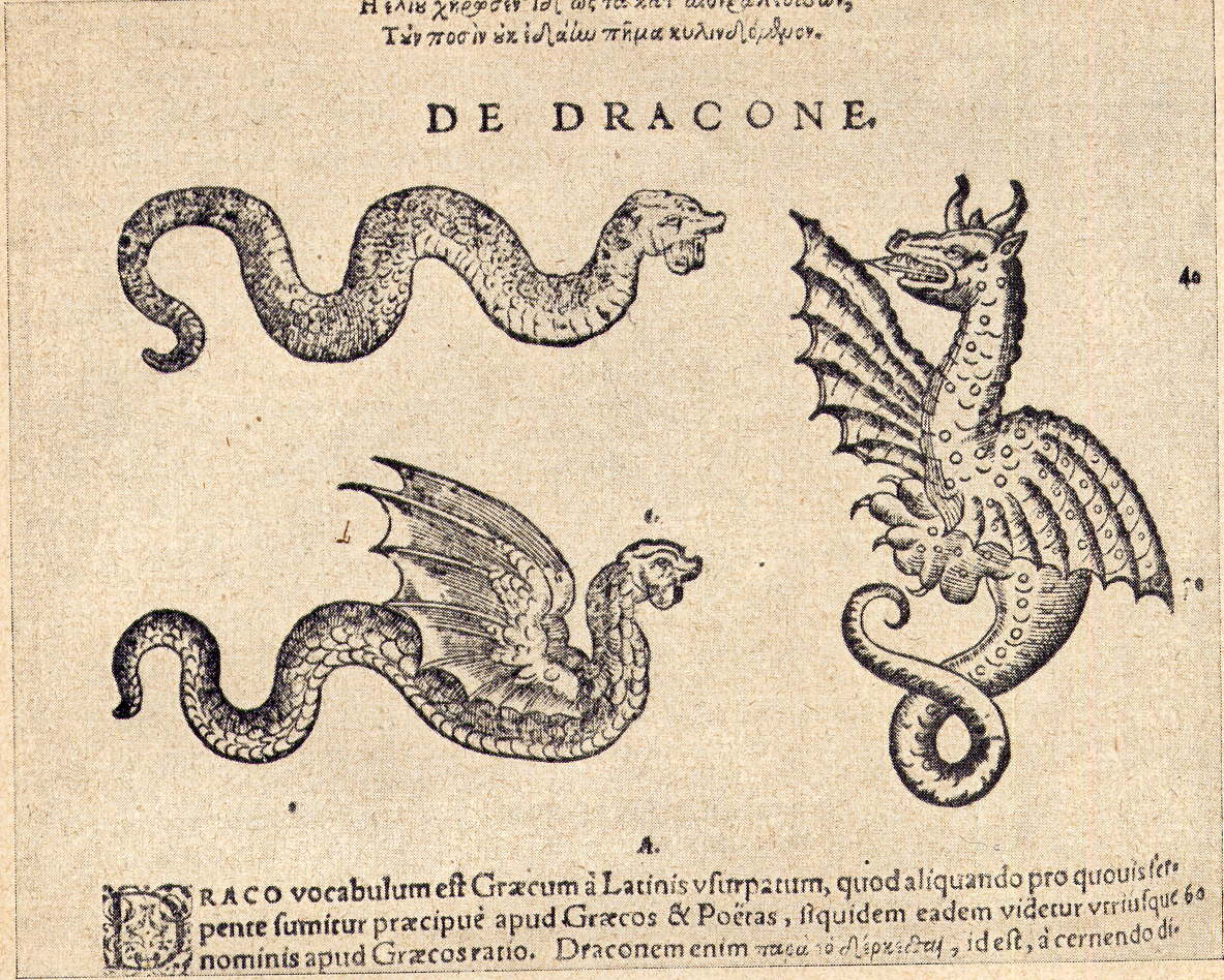 picture of a dragon. early modern scientific description.